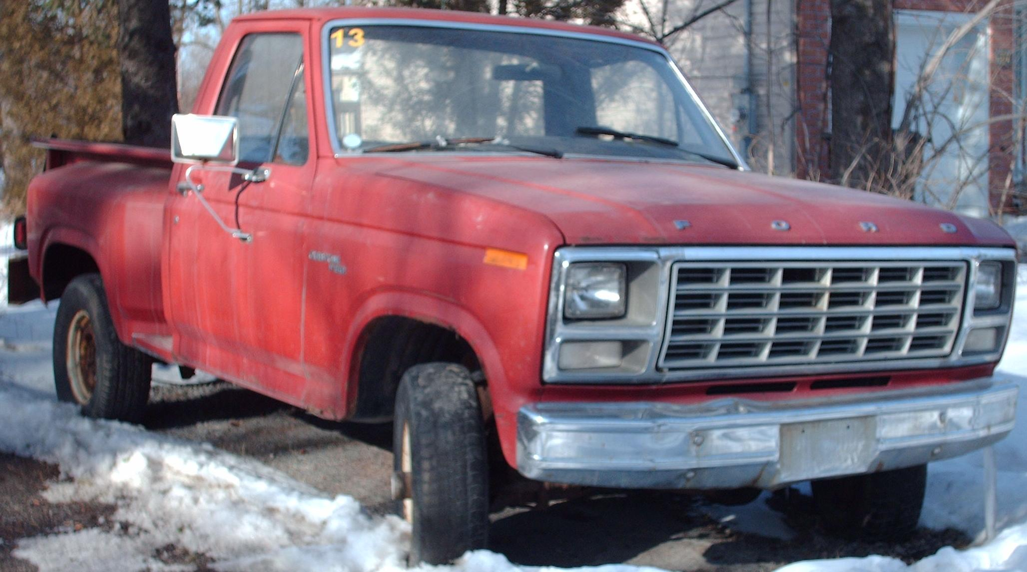 1980-1981 Ford F-150 photographed in Montreal, Quebec, Canada.